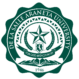 Updated university logo as of January 2018